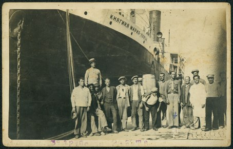 Postcard with customs workers by the ship "Princess Marie Lousie", which was moored at the port of Varna.